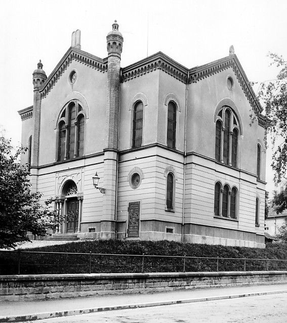 Synagogue in Freiburg in Breisgau, Germany, designed by architect Georg Jakob Schneider in 1870, destroyed in 1938 during the Kristallnacht